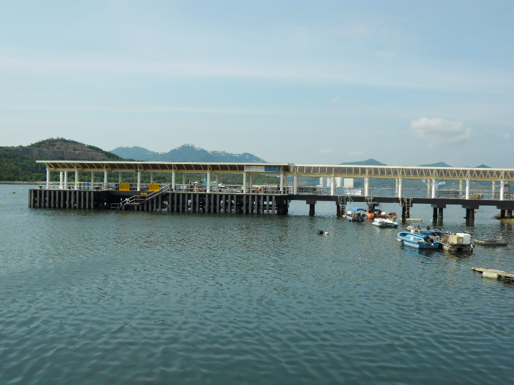 The Ferry Pier in Sok Kwu Wan (to Central) 中文（香港）: 遠看索罟灣往中環的渡輪碼頭